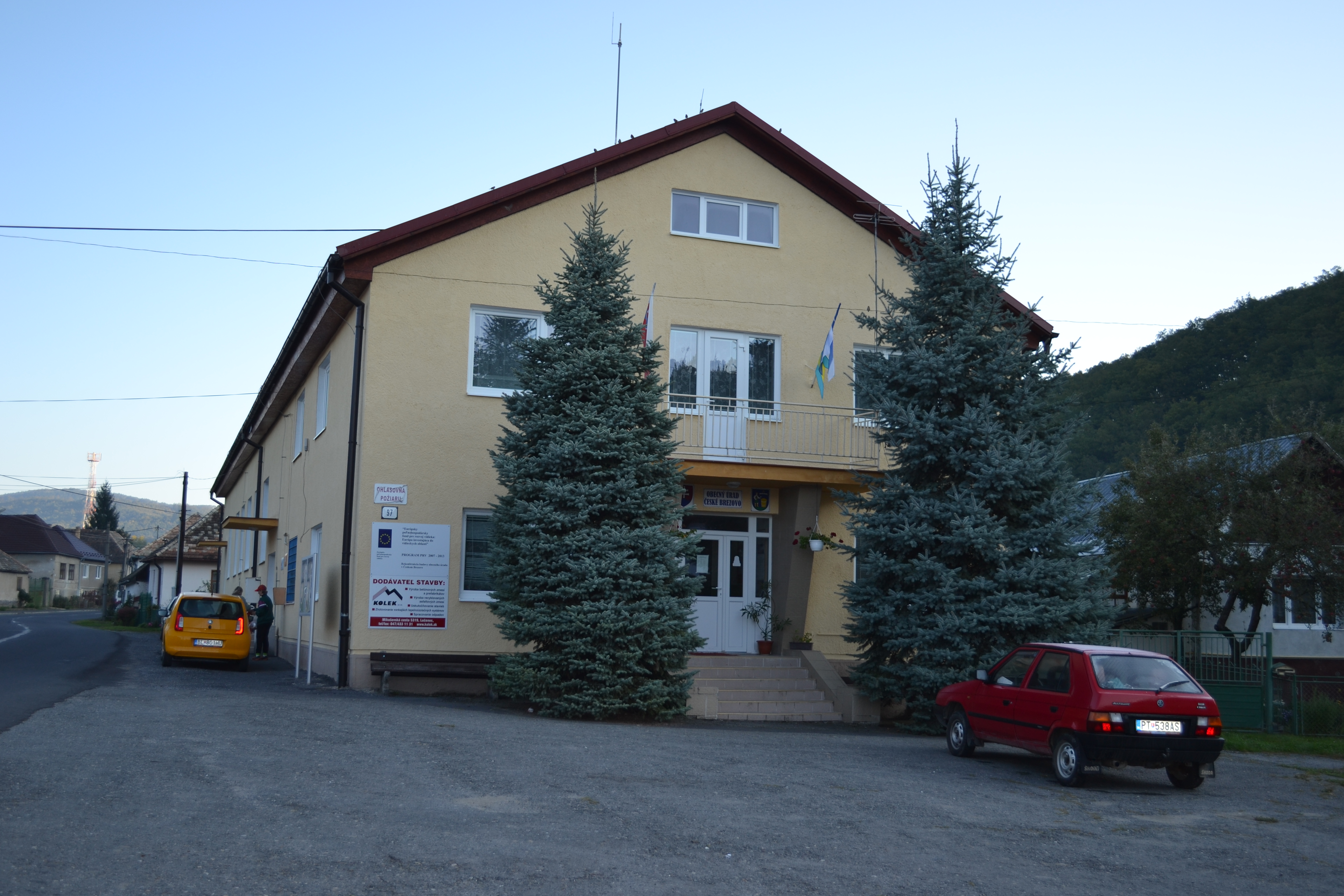 Municipal office in the village České BrezovoSlovenčina: Obecný úrad v Českom Brezove